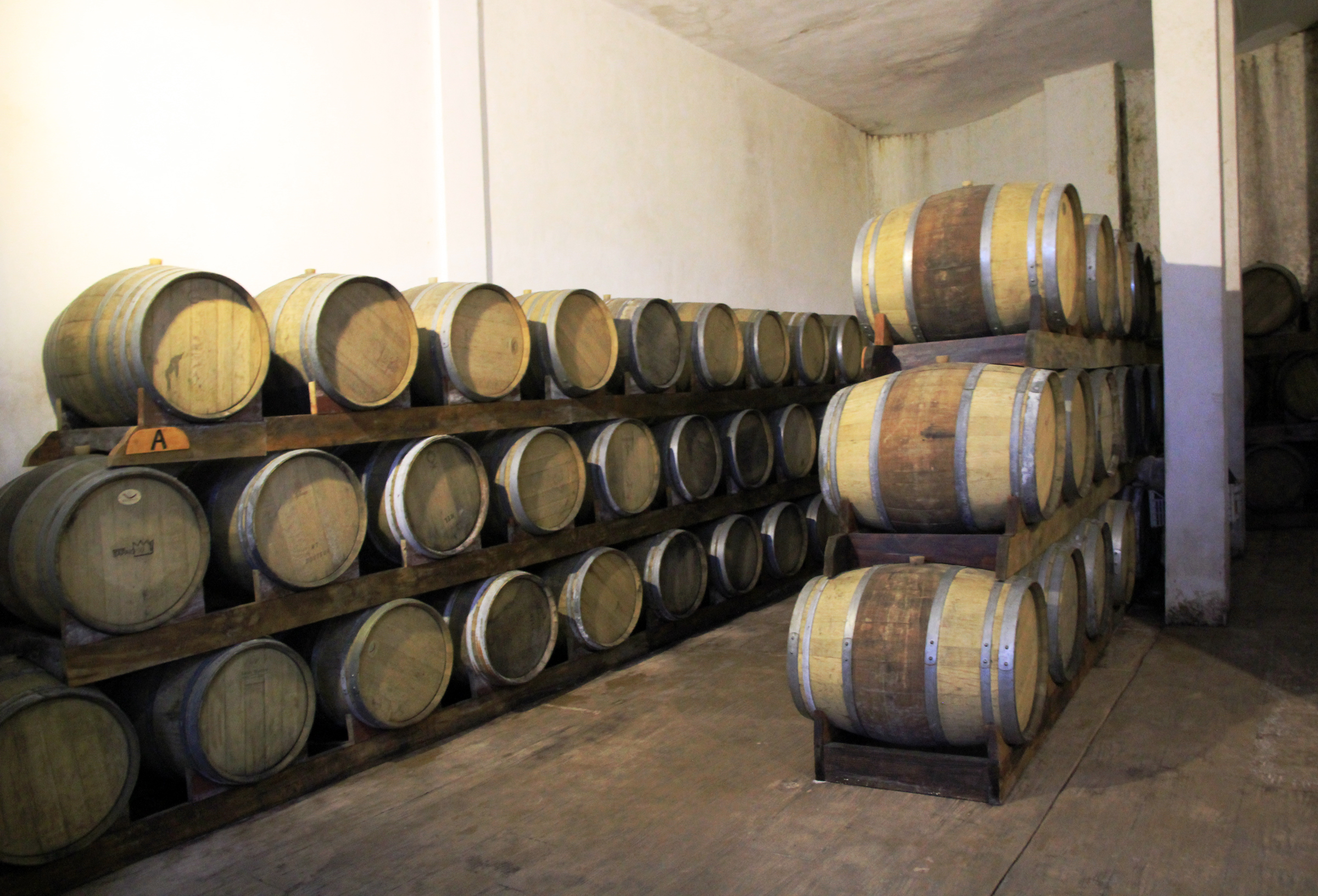 The wooden barel for spirits ripeing (maturation) in underground of plant for alcoholic beverages production Kantina Skënderbeu near the city Durrës, Albania, September 2018.